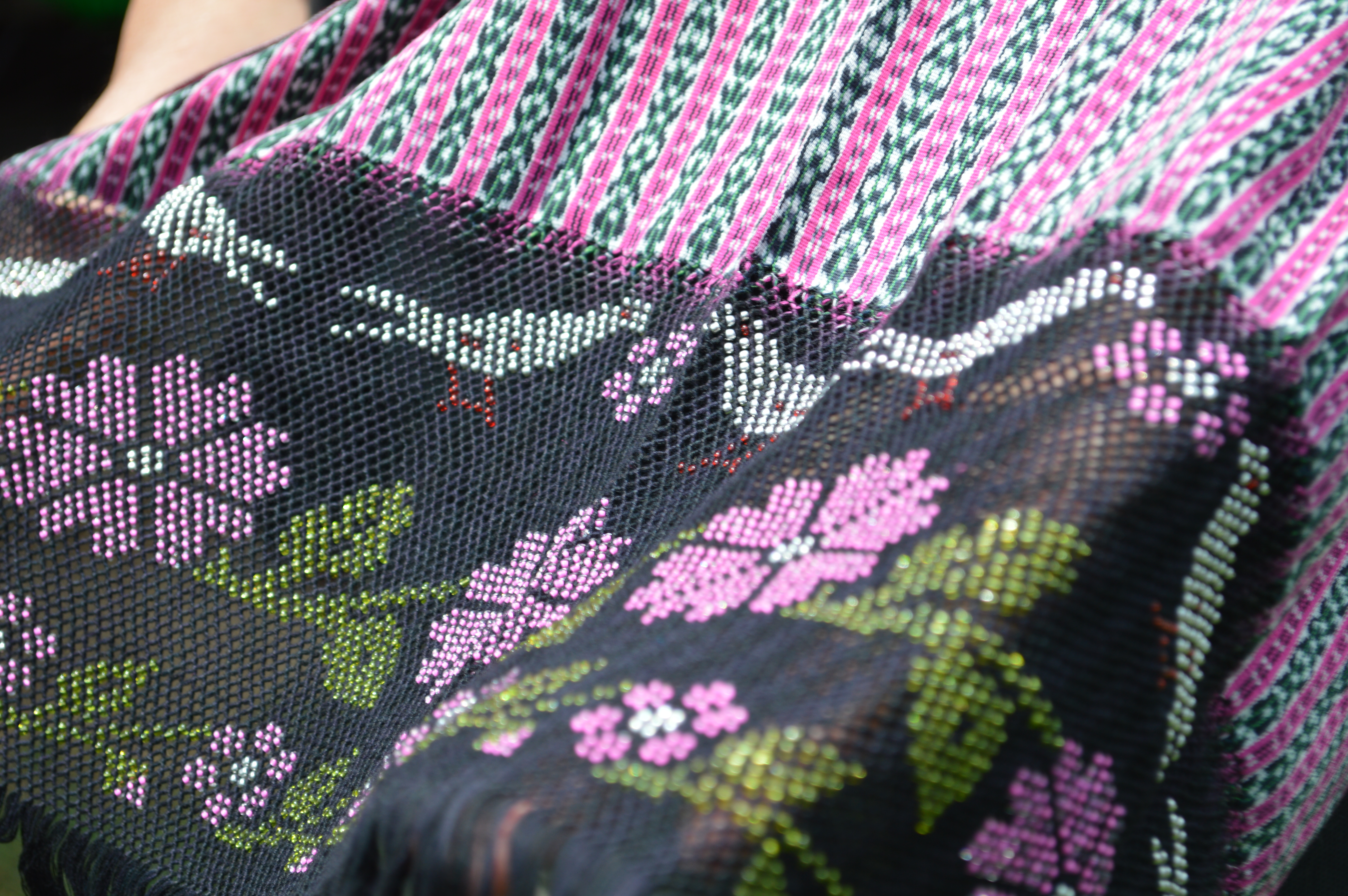 Beaded fringe on a rebozo from the Inocencio Balboa workshop in Tenancingo, Mexico State, Mexico